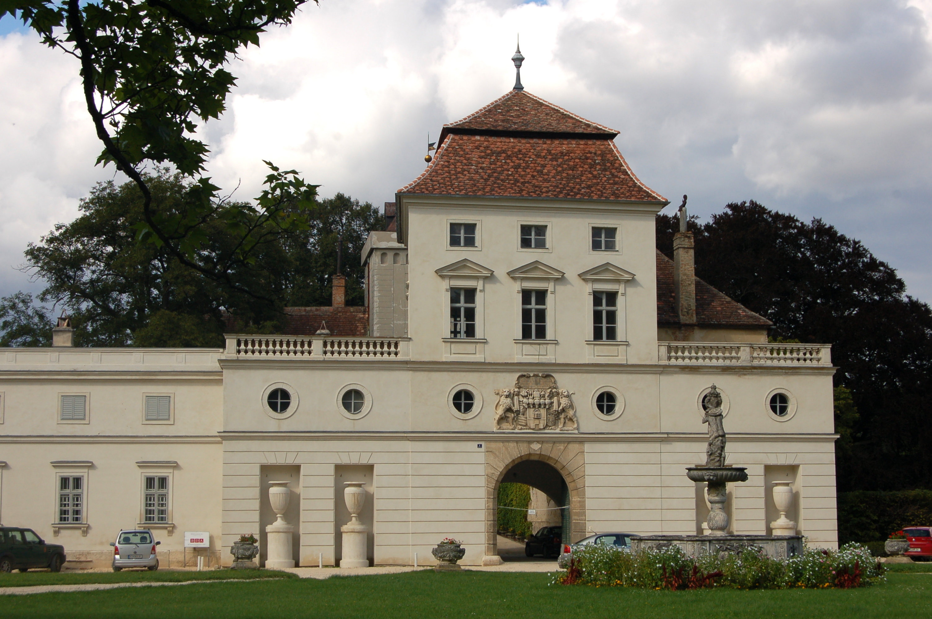 Ernstbrunn Castle, Lower Austria